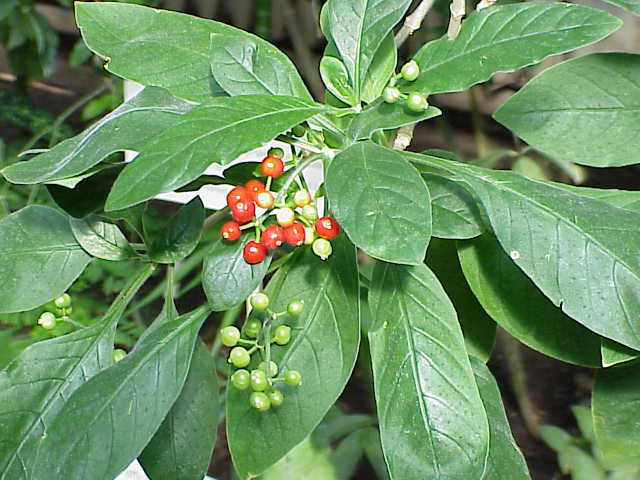 Species: Cephaelis acuminata Family: Rubiaceae Image No. 6